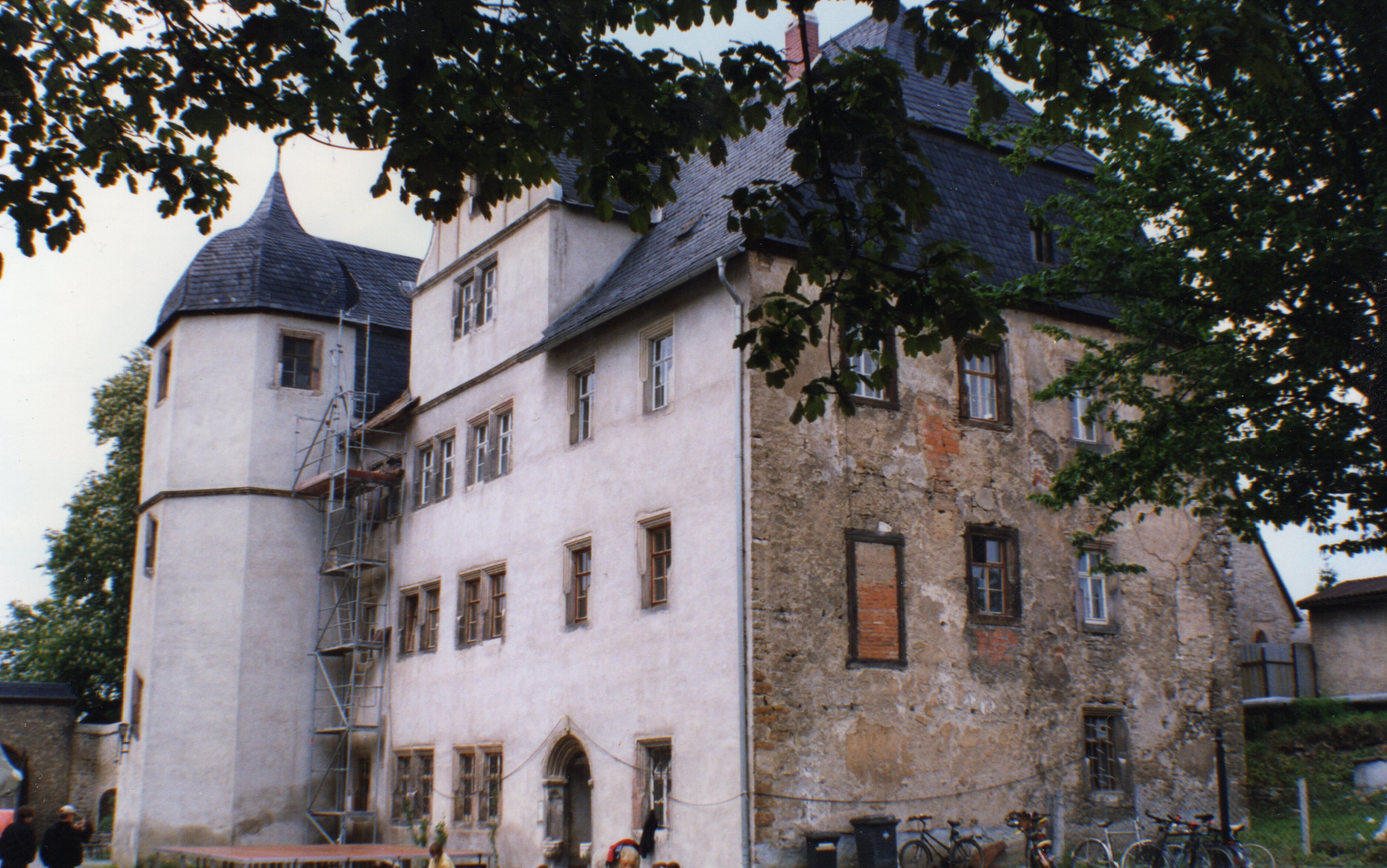 Schloss Kromsdorf near Weimar